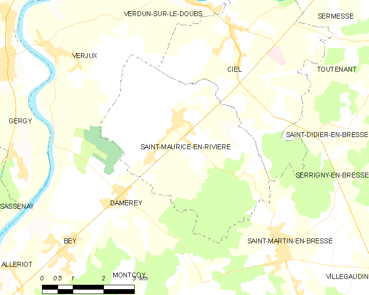 Map of French municipality